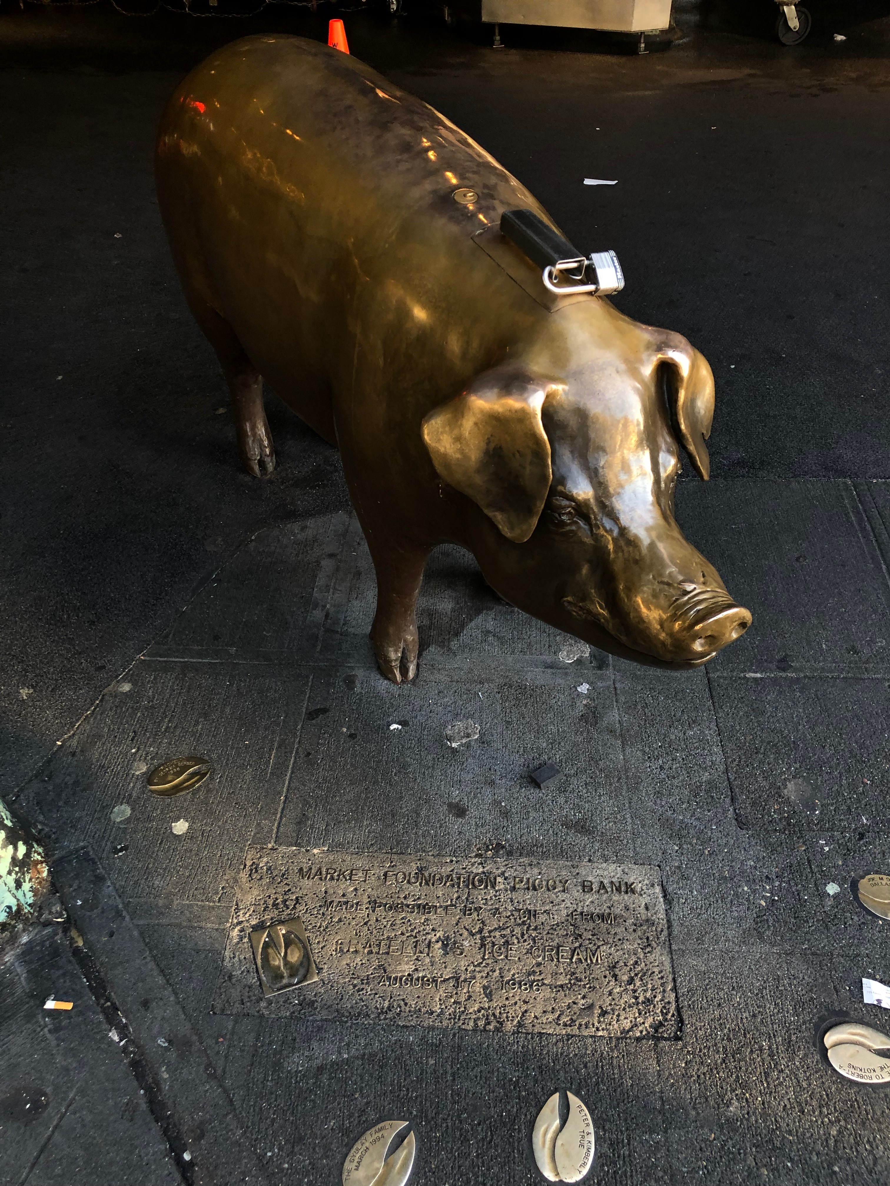 Pike Place Pig With Plaque